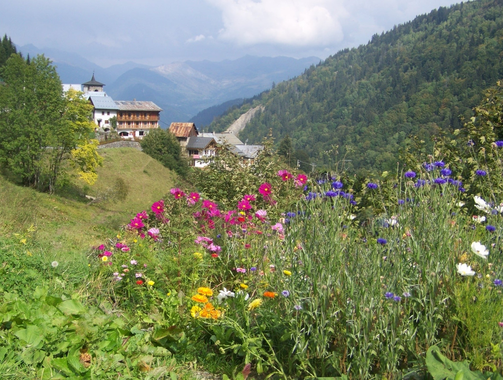 Mountain flowers seen at Celliers (commune of La Léchère) in Savoie, France. Note: some part of the flowers were copied/pasted to hide undesired details.